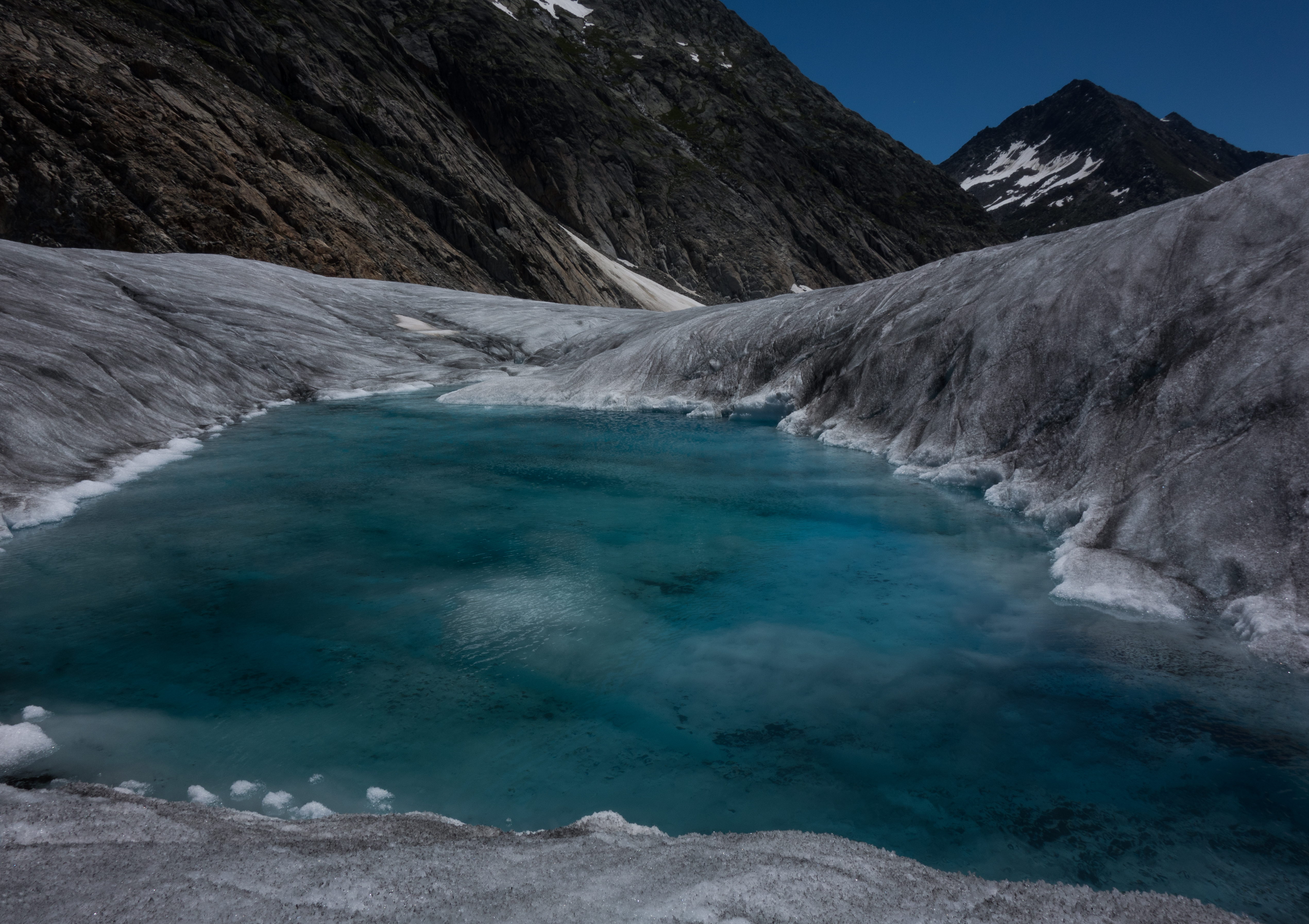 Small lake in Aletsch Glacier in june 2015. It is not Märjelen lake, situated next to the glacier. Close view